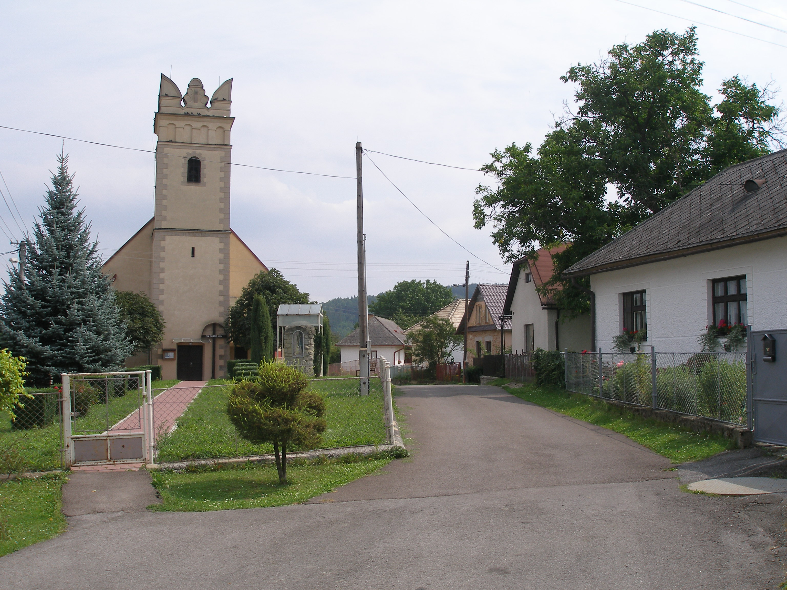 Šarišská obec Chmiňany, okres Prešov This medium shows the protected monument with the number 707-299/0 in the Slovak Republic.